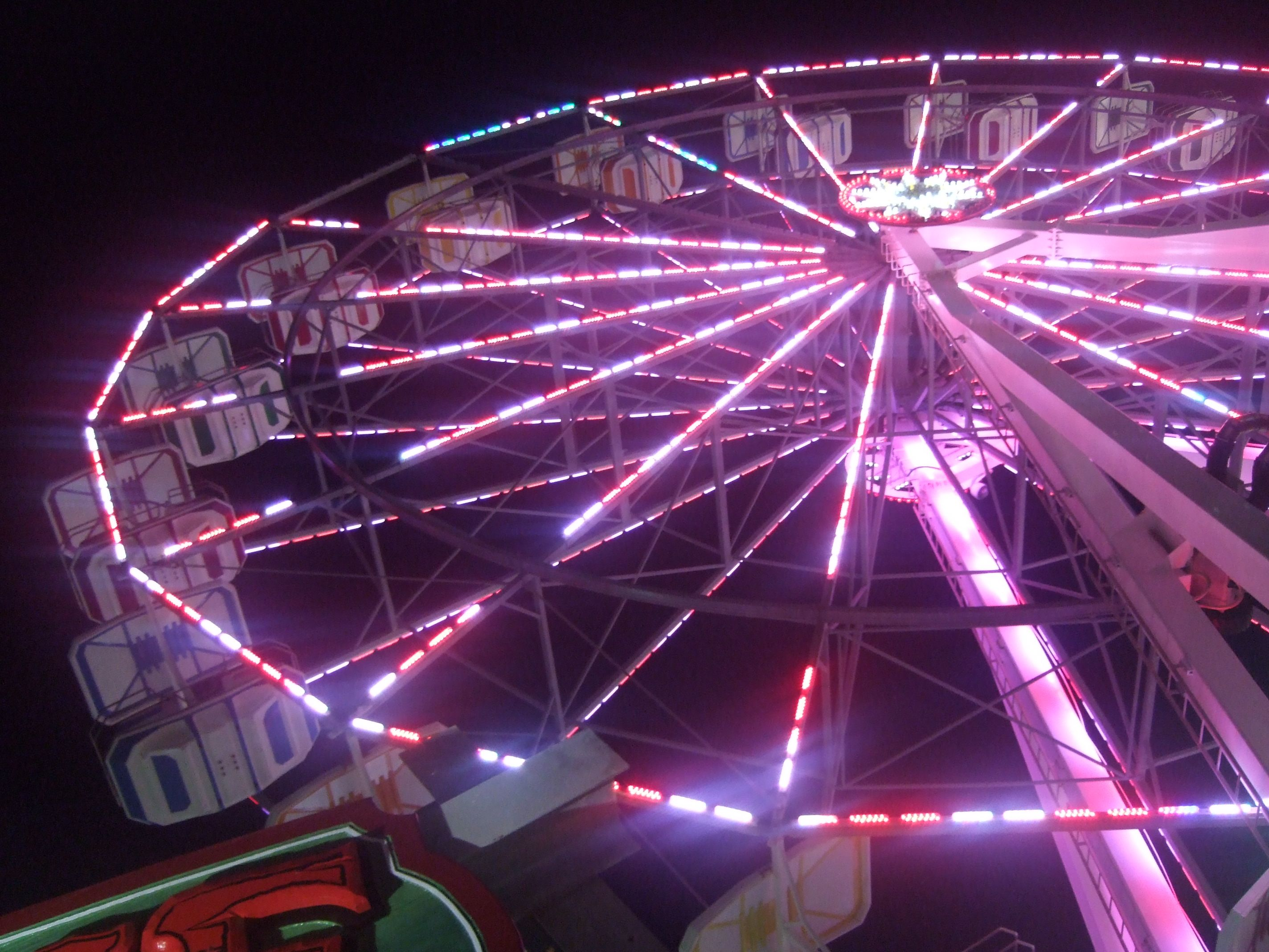 Ferris Wheel on the Boardwalk Ocean City New Jersey